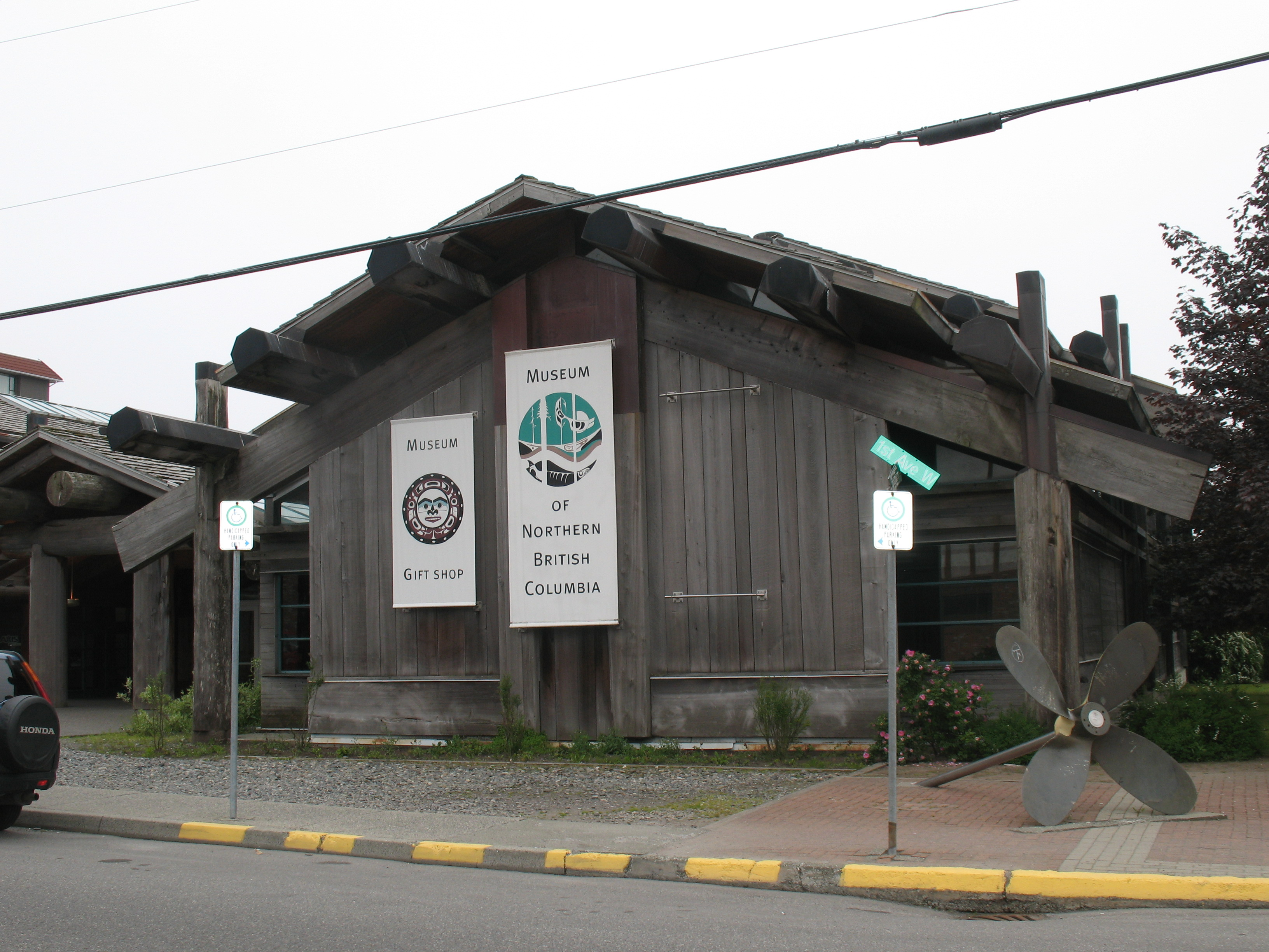 Museum_of_Northern_British_Columbia, Prince Rupert, B. C.